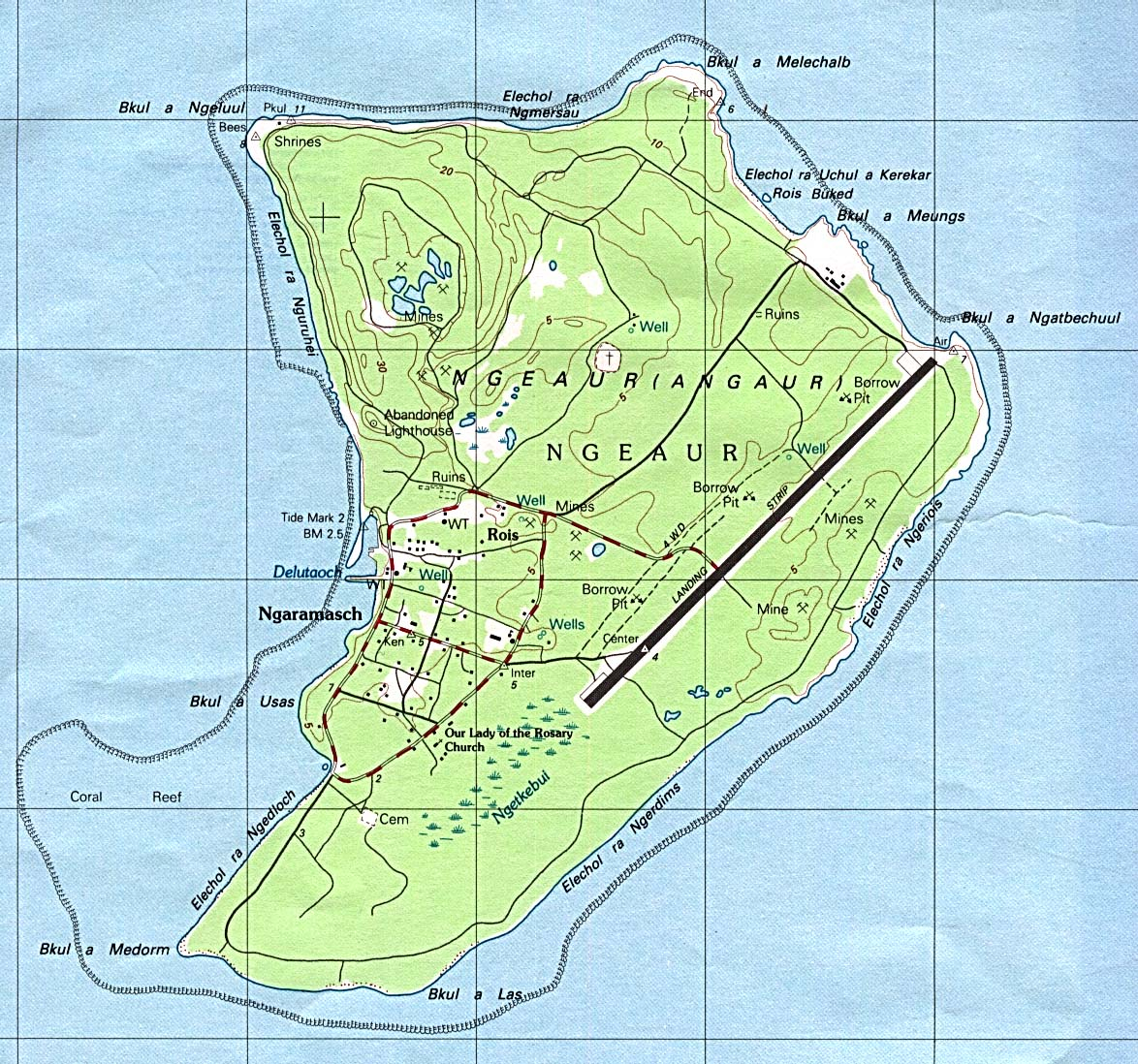 Map of Angaur Island, Palau